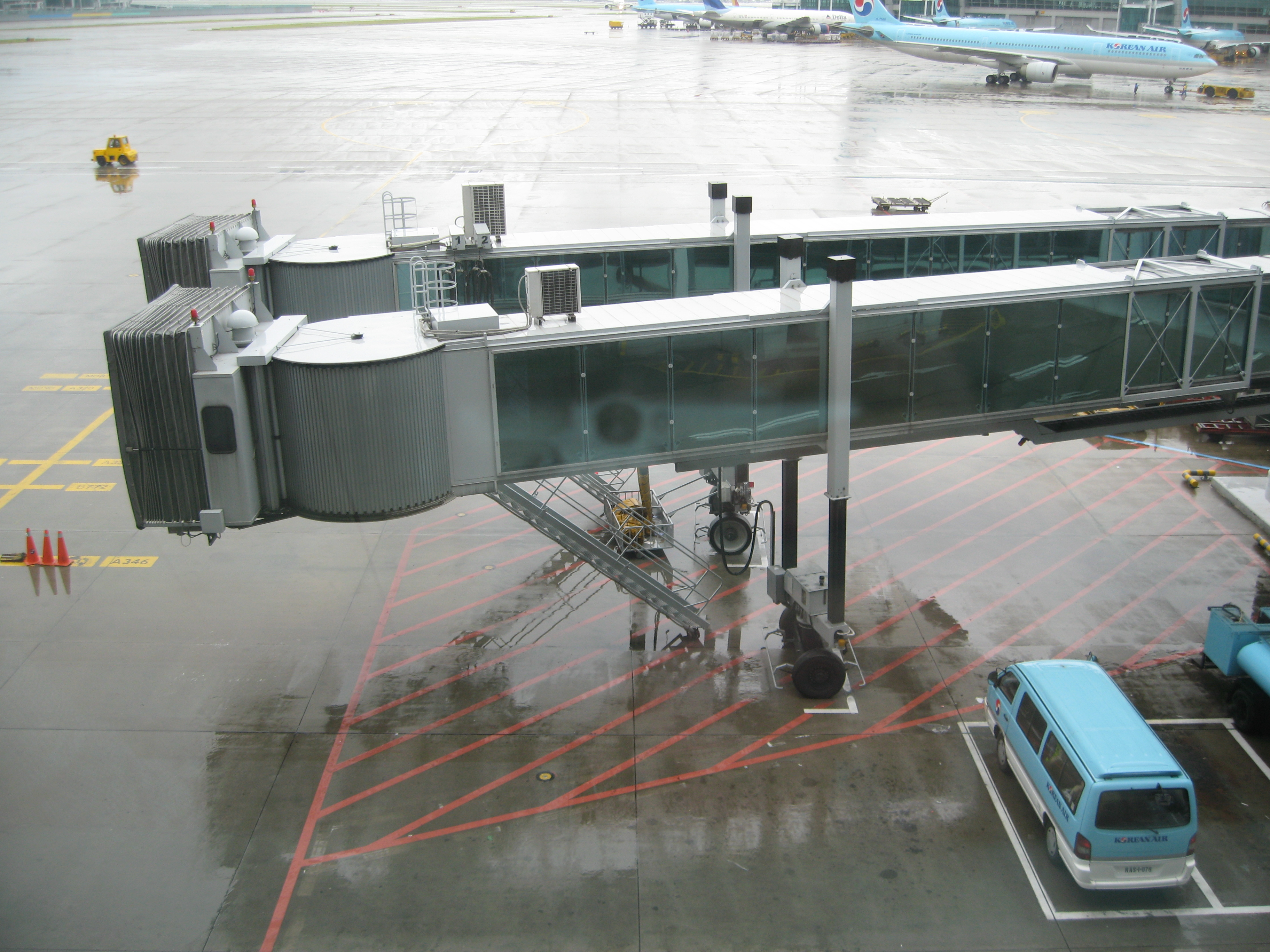 Vacant jetport at Seoul-Incheon airport.